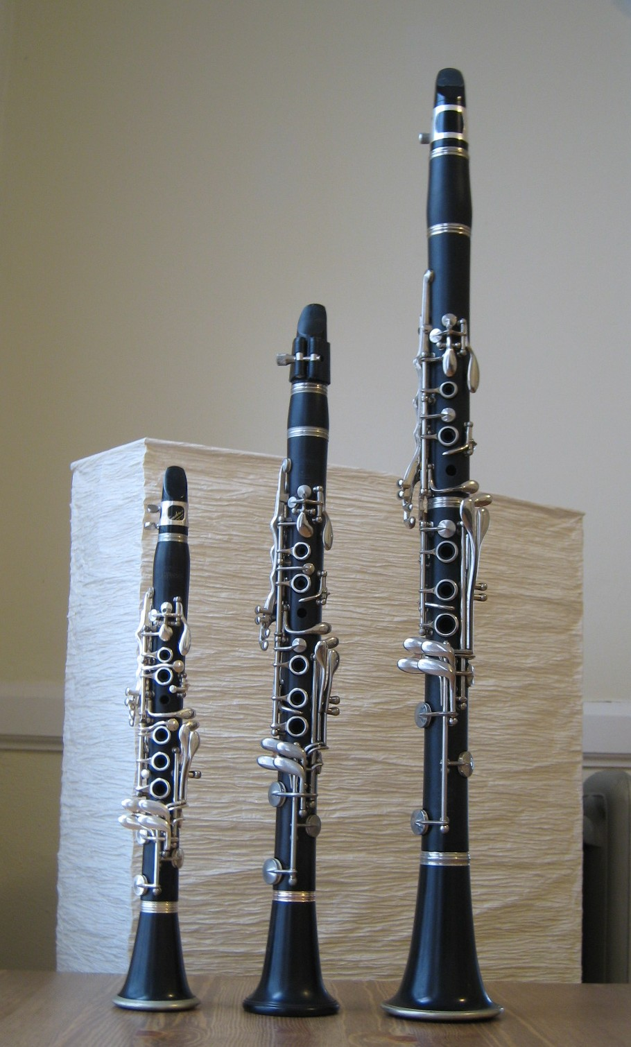 Comparison of three clarinets (A-flat, E-flat, and B-flat); higher clarinets by Ripamonti, B-flat by Buffet